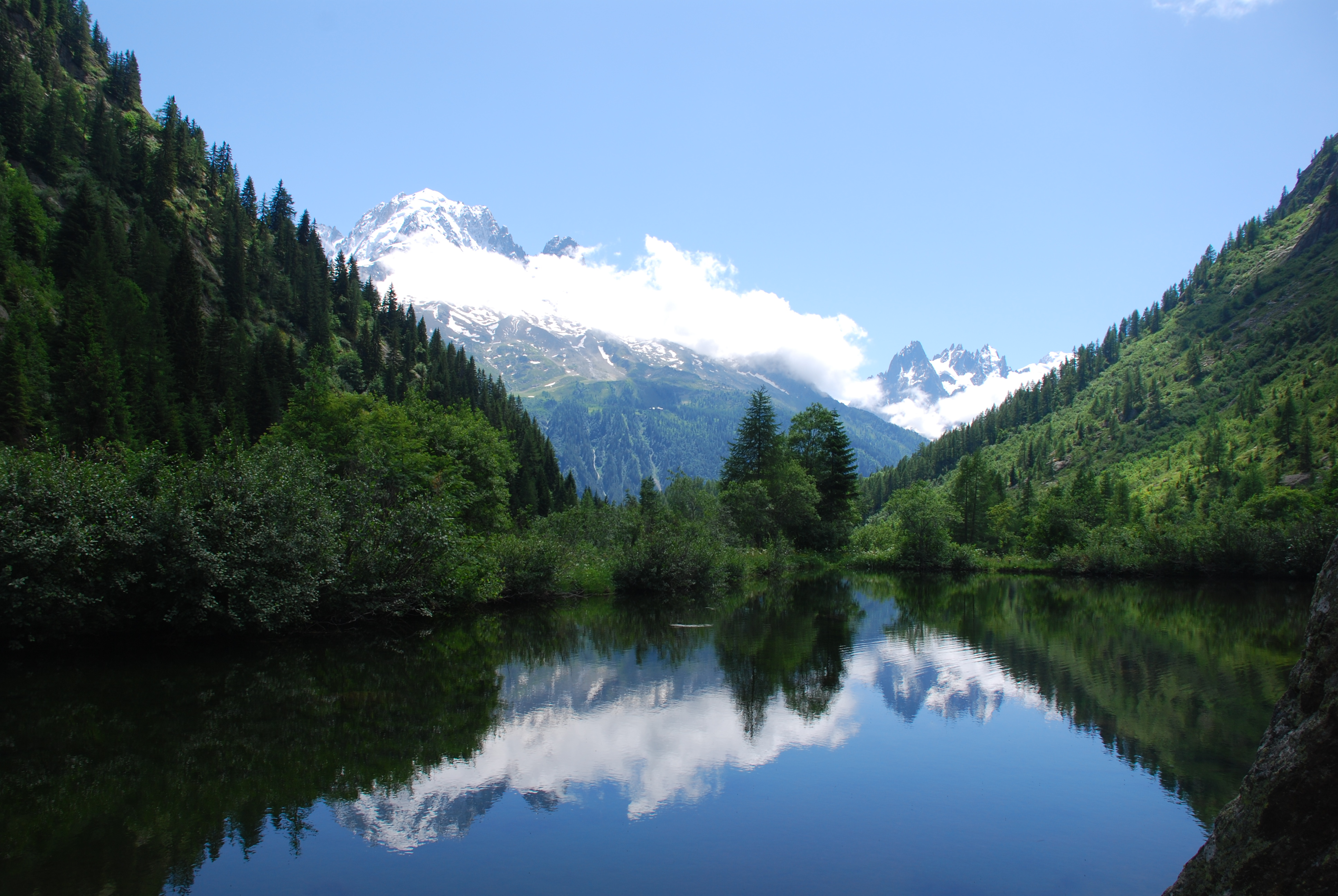 Mont-Blanc Massif from Col des Montets